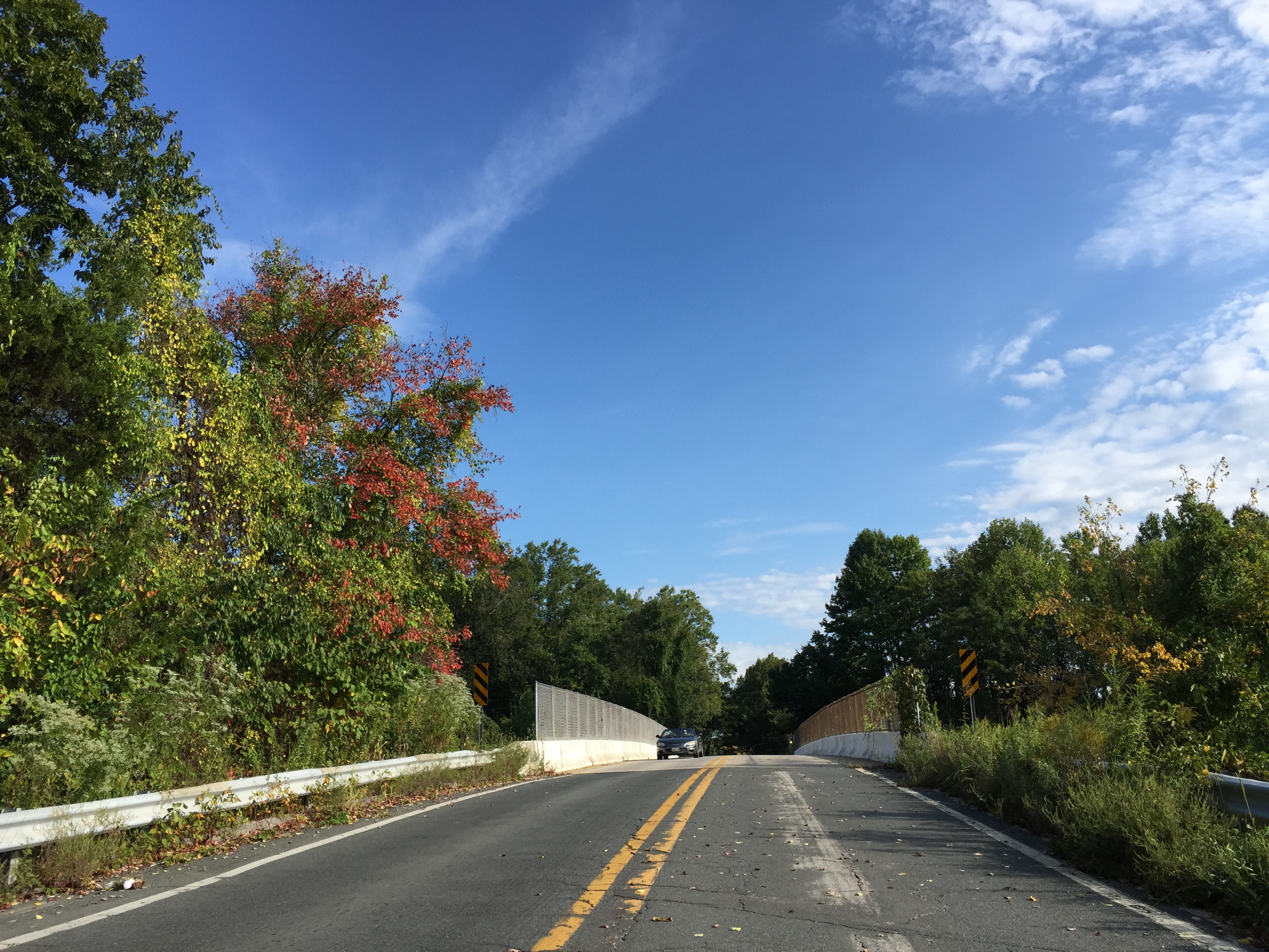 View north along Maryland State Route 726 (Green Landing Road) at Maryland State Route 4 (Stephanie Roper Highway) in Croom, Prince Georges County, Maryland